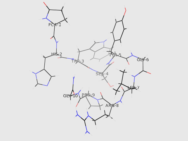 The structure of GNRH1 (from PDB 1YY1) (Gonadotropin-releasing_hormone